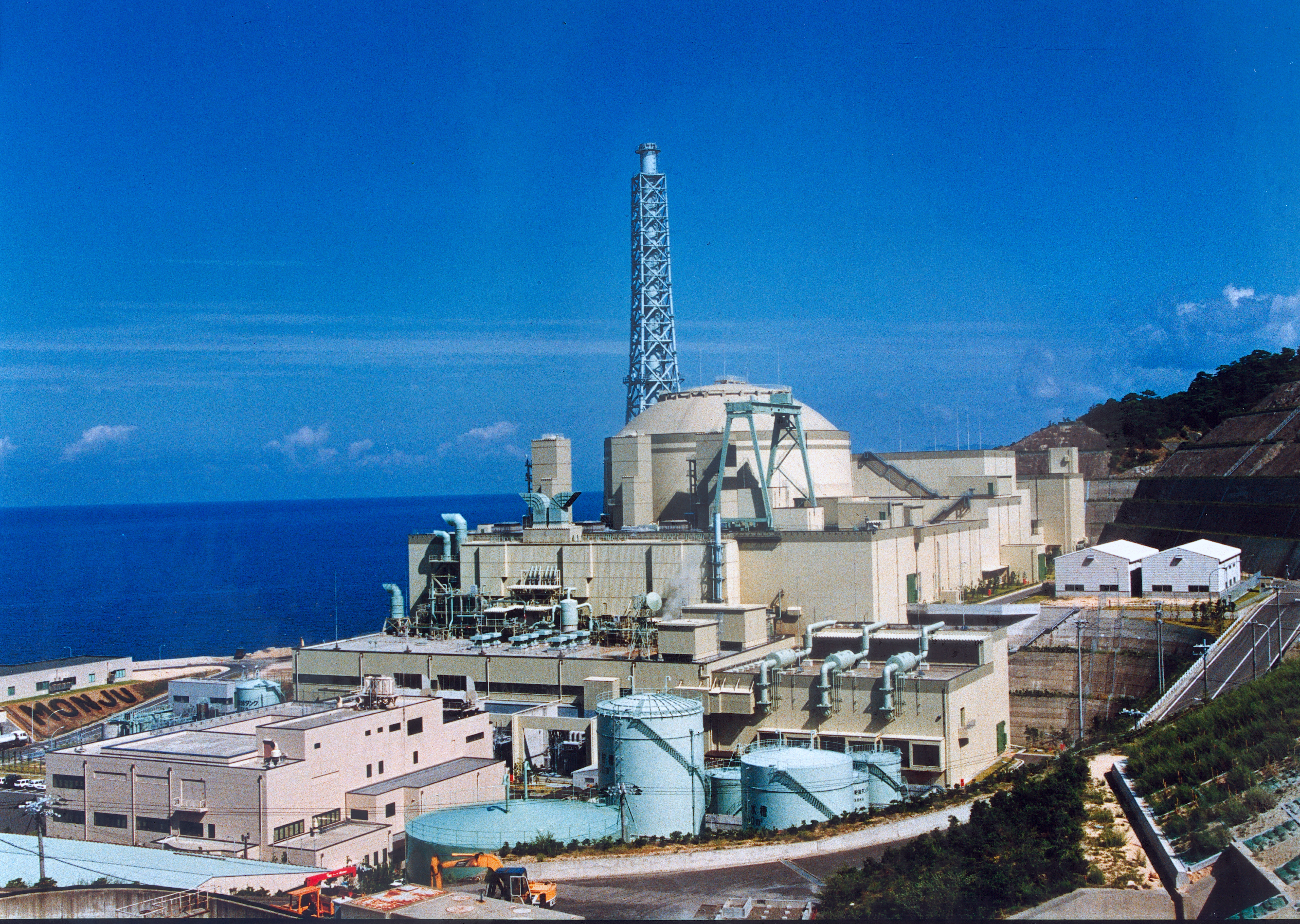 Monju, fast breeder reactor, Japan 2007. Photo Credit: The Nuclear Fuel and Power Reactor Development Corporation (PNC)